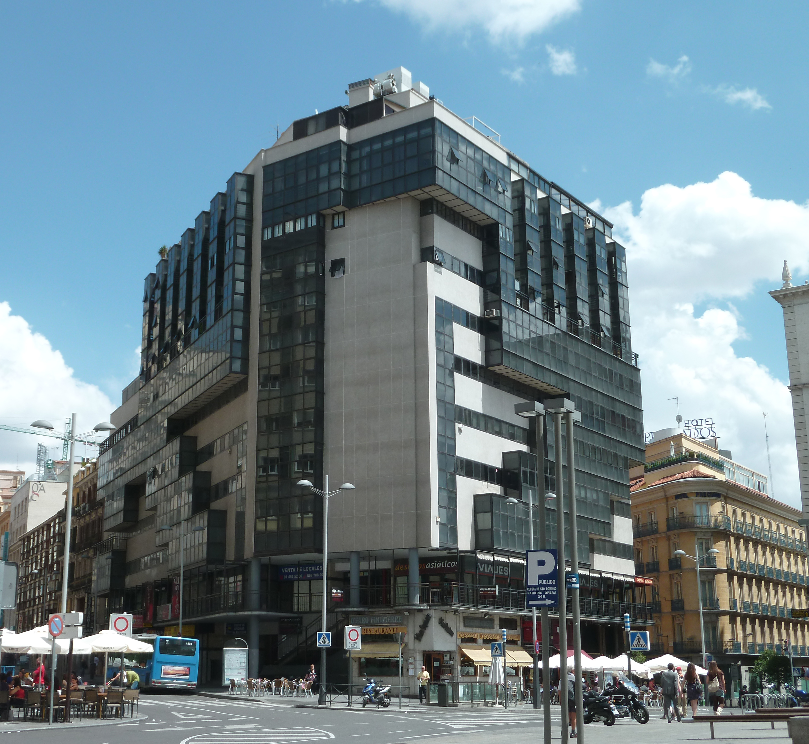 Housing and office building at 15 Calle de Jacometrezo (street) in Madrid (Spain). It was designed in 1976 by Juan Daniel Fullaondo Errazu and José Luis Íñiguez de Onzoño Angulo, and built between 1976 and 1985.